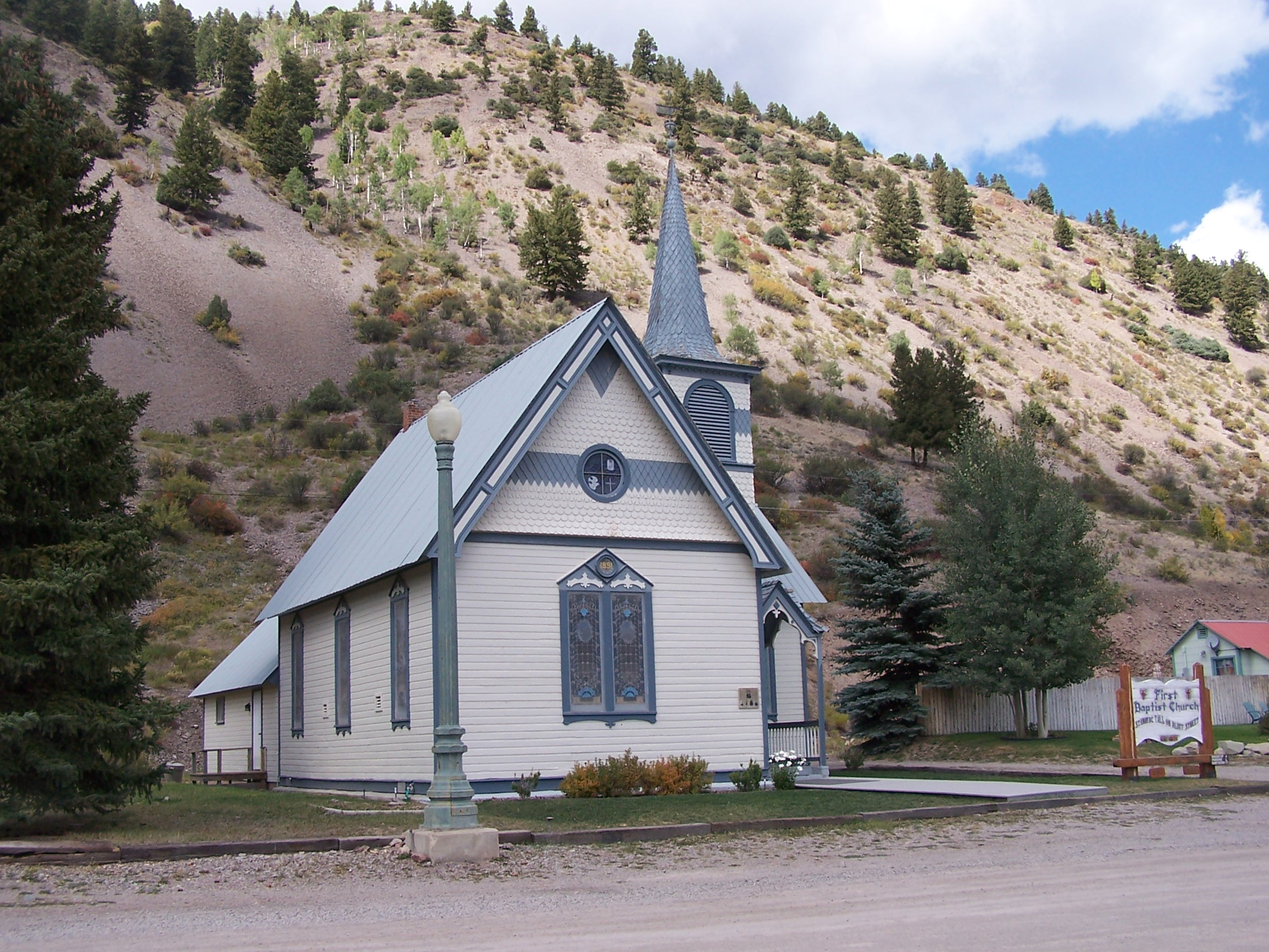 Baptist Church in Lake City, Colorado. Contributing property to the Lake City Historic District on the National Register of Historic Places.